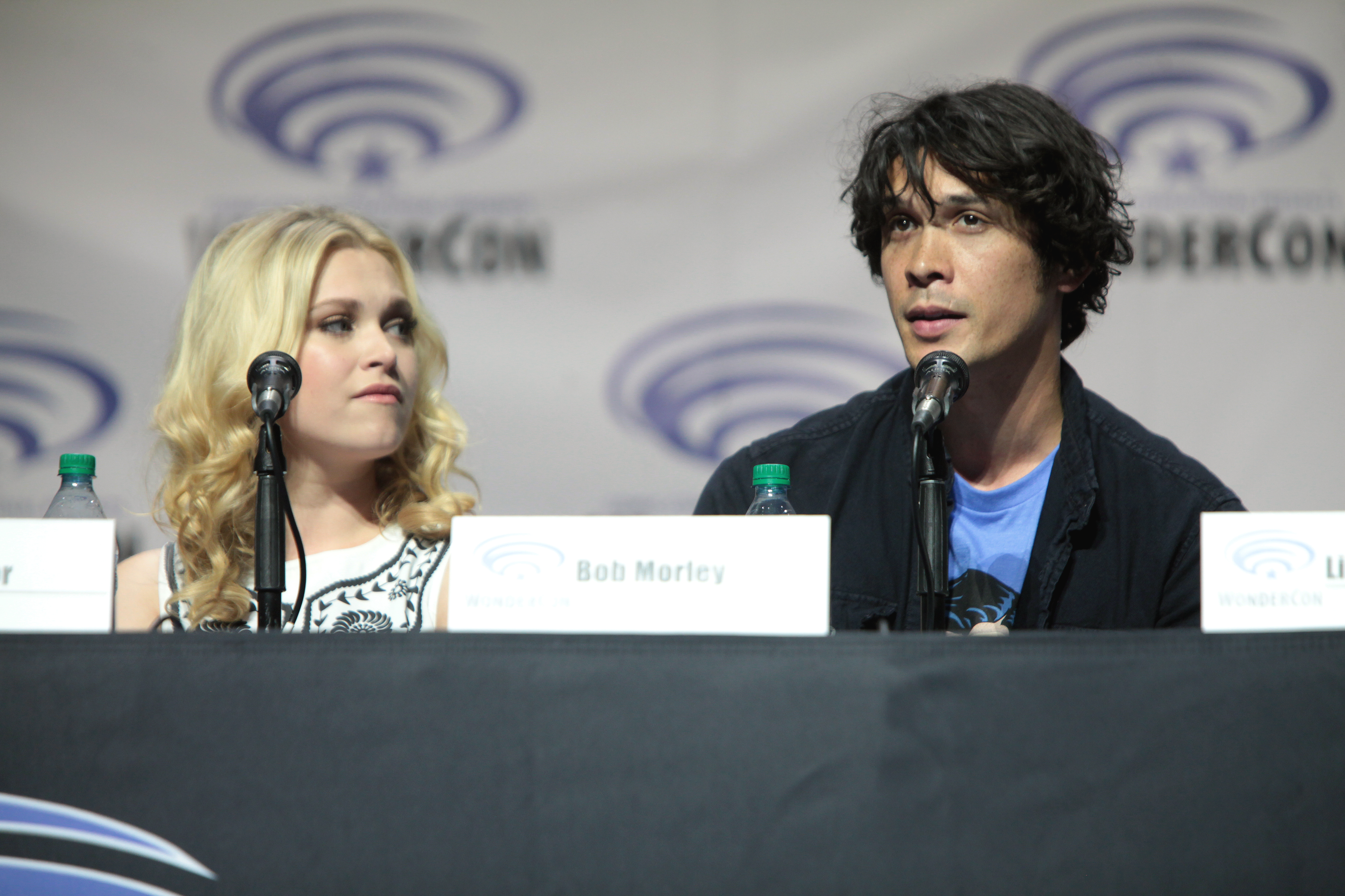 Eliza Taylor and Bob Morley speaking at the 2016 WonderCon, for "The 100", at the Los Angeles Convention Center in Los Angeles, California.